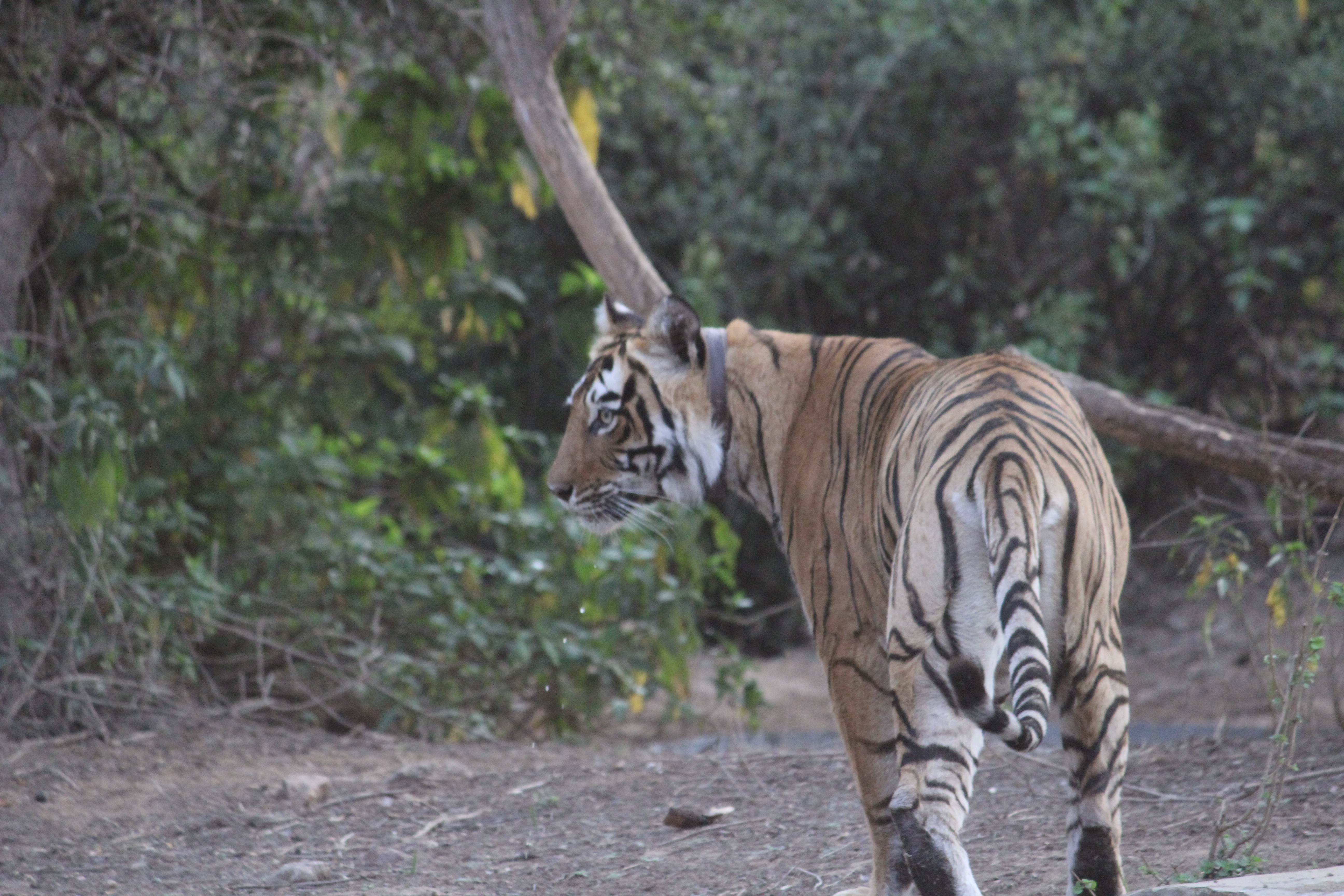 Photograph of a tiger in the Sariska Tiger Reserve when she came to drink water. The collar around its neck is used to track and monitor it.